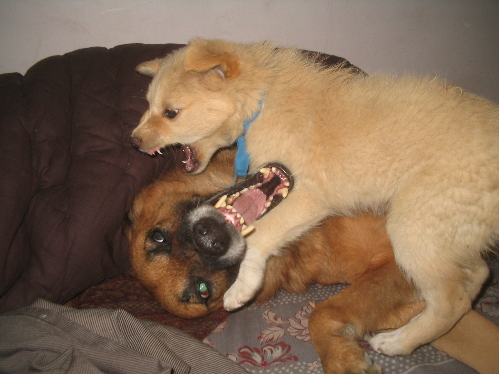 The looks are pretty aggressive. Both are pet dogs. Initially it may appear that these two dogs will tear each other down, but the much bigger dog is lying on its back. And they are just having fun. People who are experienced may be able to point out other body language signs that may confirm that they are NOT fighting. -- Tomsu and Fluffy seem to be going on well, but time will tell how Brownie handles the competition from Fluffy